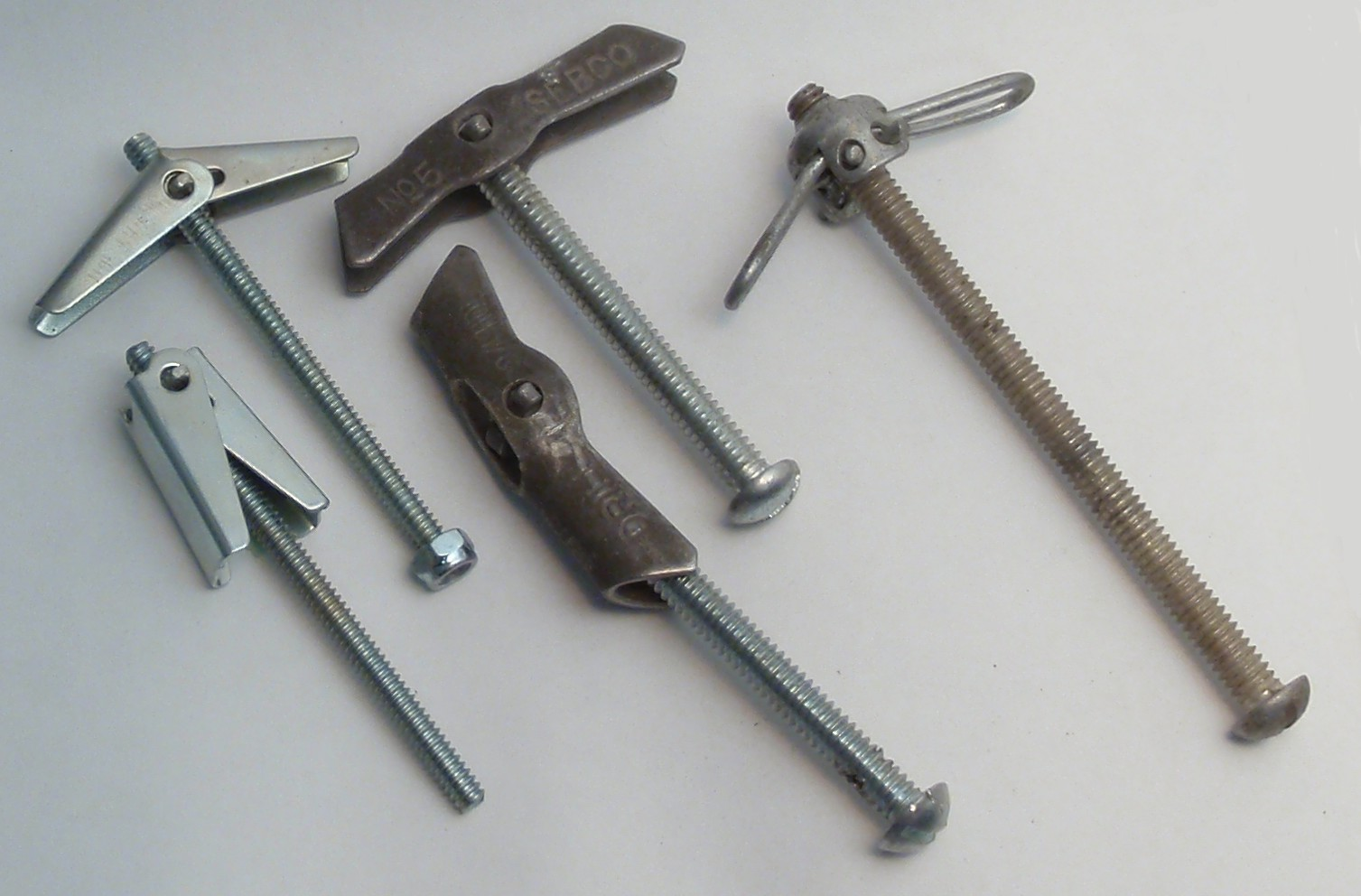 Various types of toggle bolts